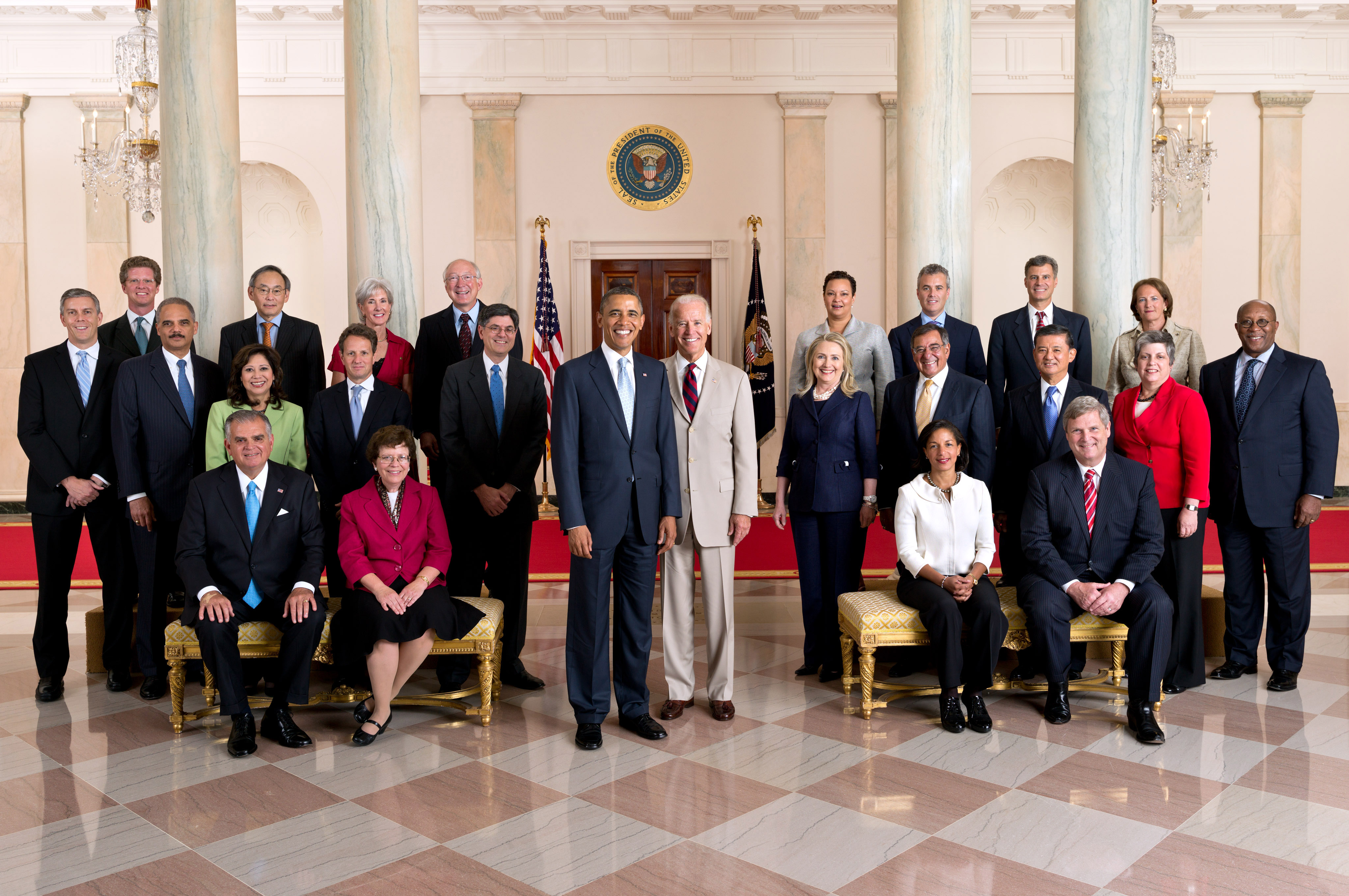 President Barack Obama and Vice President Joe Biden pose with the full Cabinet for an official group photo in the Grand Foyer of the White House, July 26, 2012. Seated, from left, are: Transportation Secretary Ray LaHood, Acting Commerce Secretary Rebecca Blank, U.S. Permanent Representative to the United Nations Susan Rice, and Agriculture Secretary Tom Vilsack. Standing in the second row, from left, are: Education Secretary Arne Duncan, Attorney General Eric H. Holder, Jr., Labor Secretary Hilda L. Solis, Treasury Secretary Timothy F. Geithner, Chief of Staff Jack Lew, Secretary of State Hillary Rodham Clinton, Defense Secretary Leon Panetta, Veterans Affairs Secretary Eric K. Shinseki, Homeland Security Secretary Janet Napolitano, and U.S. Trade Representative Ron Kirk. Standing in the third row, from left, are: Housing and Urban Development Secretary Shaun Donovan, Energy Secretary Steven Chu, Health and Human Services Secretary Kathleen Sebelius, Interior Secretary Ken Salazar, Environmental Protection Agency Administrator Lisa P. Jackson, Office of Management and Budget Acting Director Jeffrey D. Zients, Council of Economic Advisers Chair Alan Krueger, and Small Business Administrator Karen G. Mills. (Official White House Photo by Chuck Kennedy)